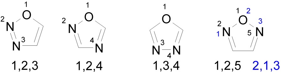 Chemical structure of four different oxadiazoles